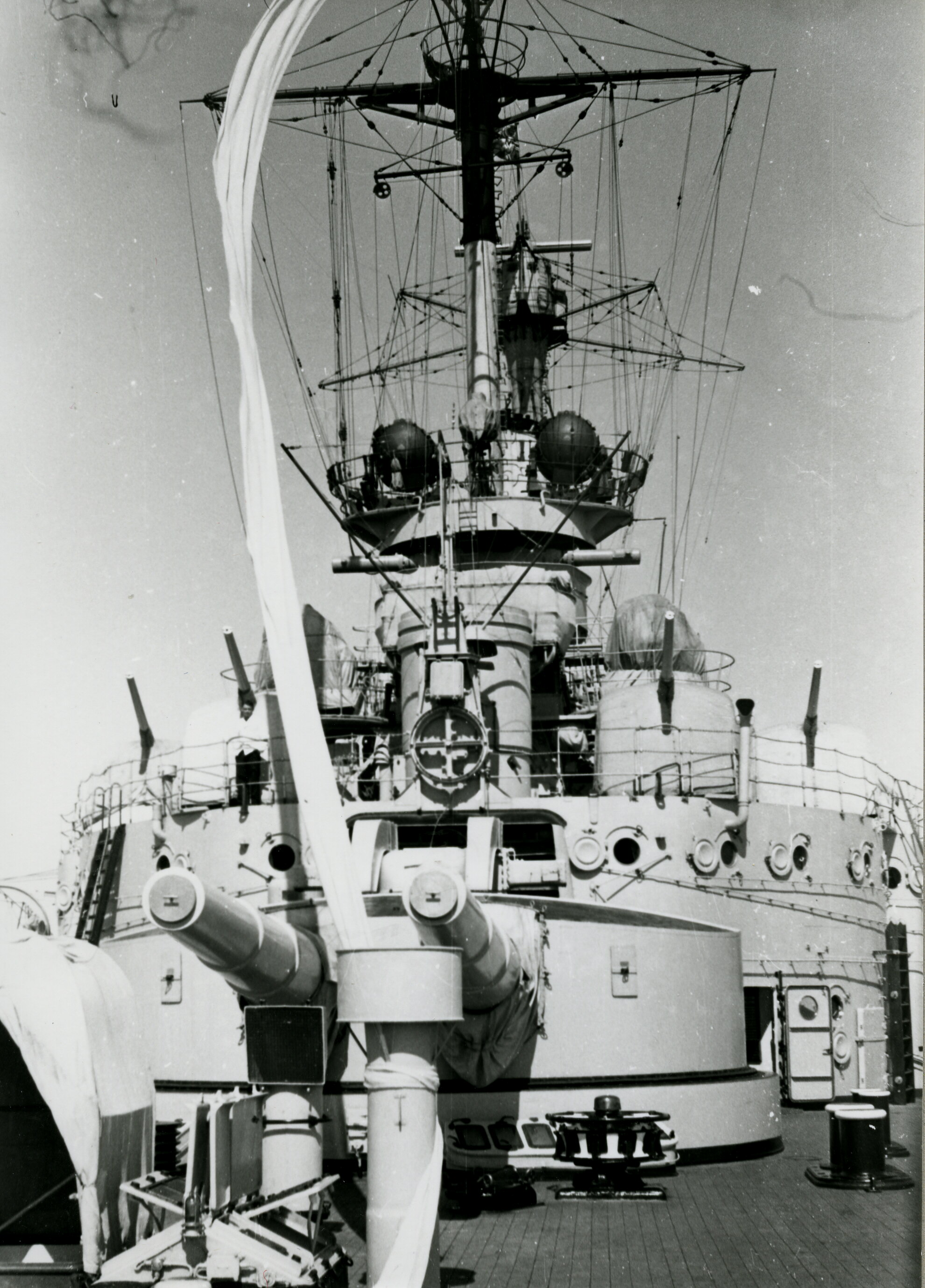 Preparation to set the homeward bound pennant on SMS Schlesien. The pennant is around 200m long and 50 cm wide. See also: Spraul, G.: "Vom Fähnlein zur Fahne in den Tod", ISBN 978-3-86634-502-7, pp 395.